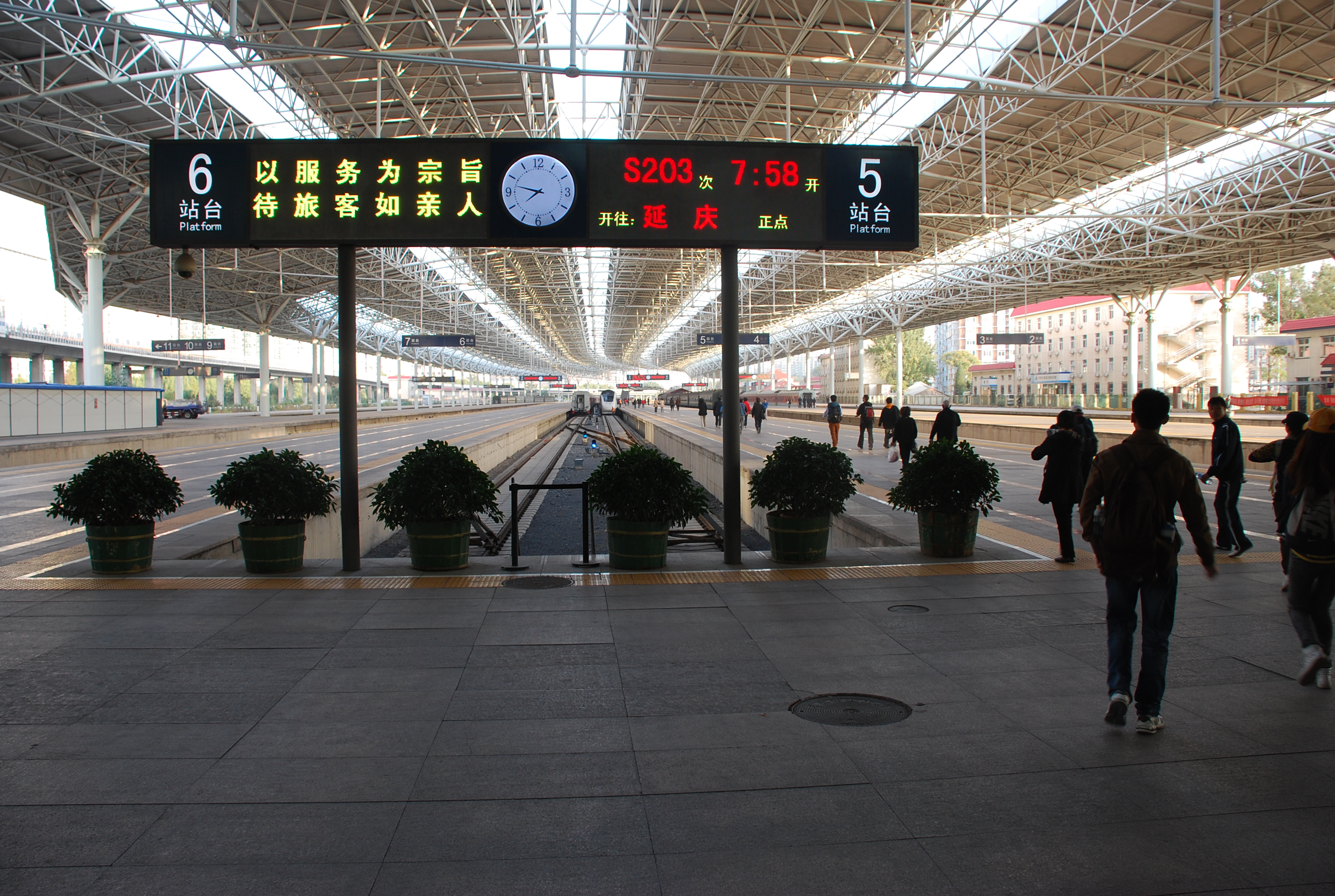 Beijing North Railway Station